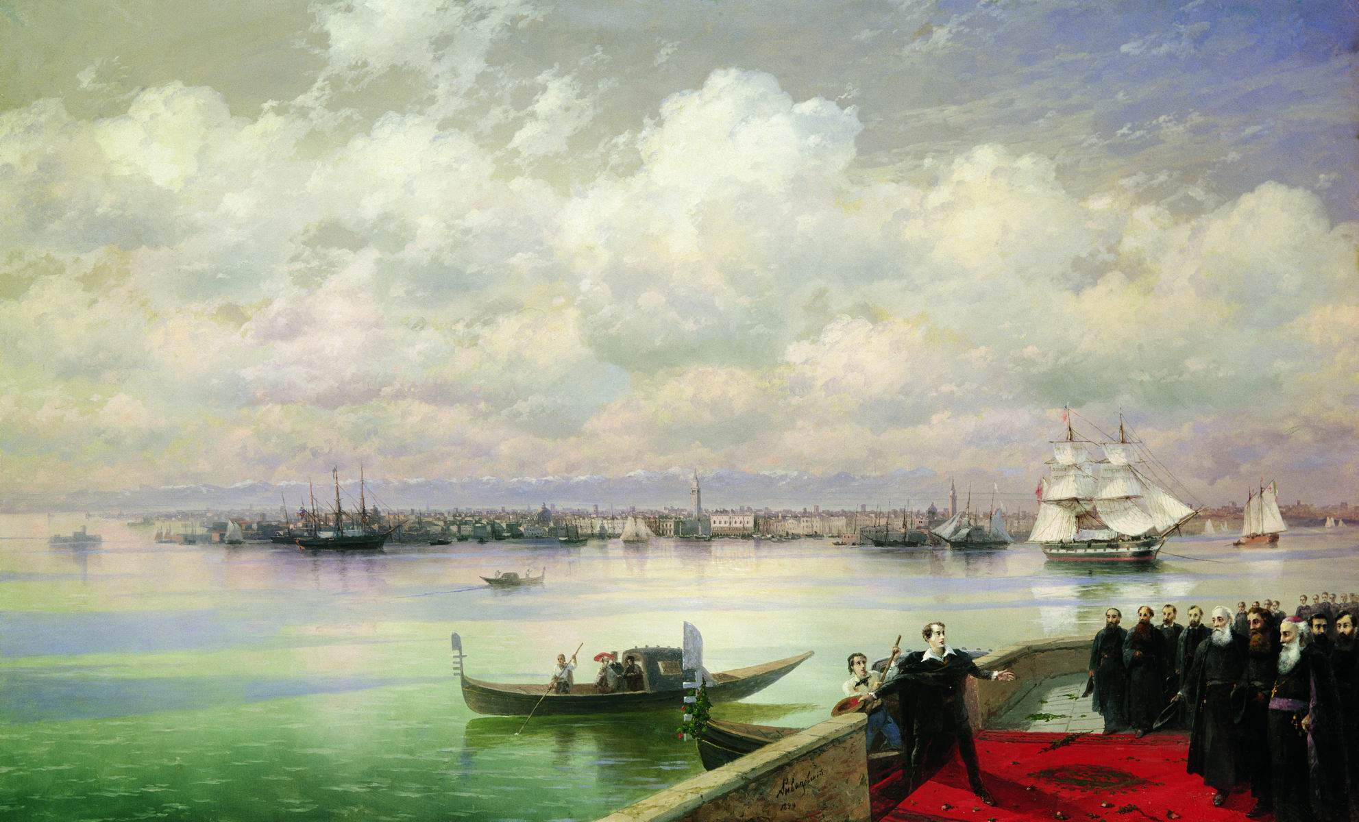 Byron's visit to the Mekhitarists on San Lazzaro as pictured by Ivan Aivazovsky, 1899 National Gallery of Armenia canvas, oil paint Dimensions: 133 x 218 cm